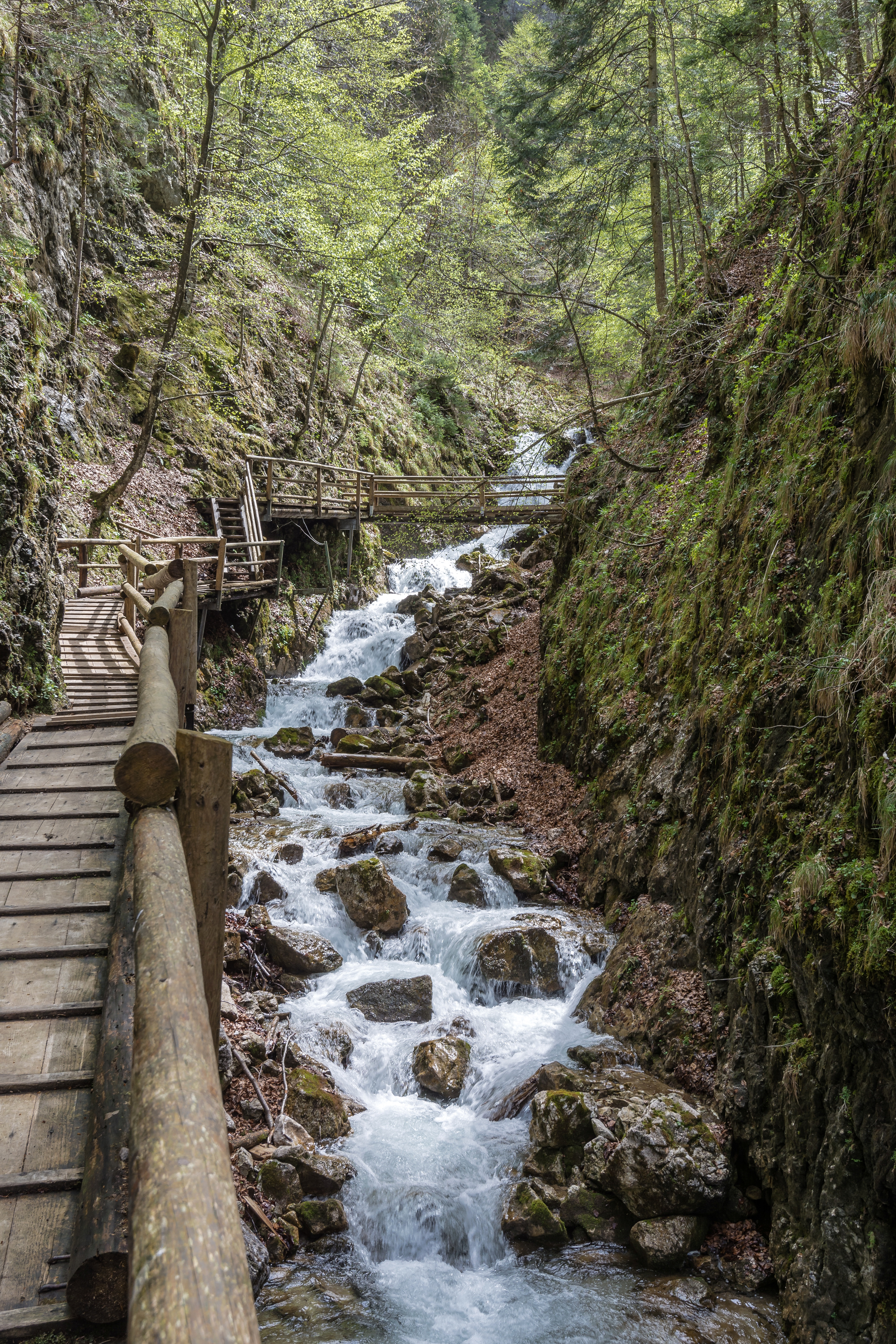 The ravine Dr.-Vogelgesang-Klamm is in the second place among the longest ravines in Austria which can be accessed by walkers. It is named after the medical practitioner Dr. Vogelgesang who was the initiator of erection of the pedestrian bridges trough the ravine. This media shows the natural monument in Upper Austria with the ID nd181.